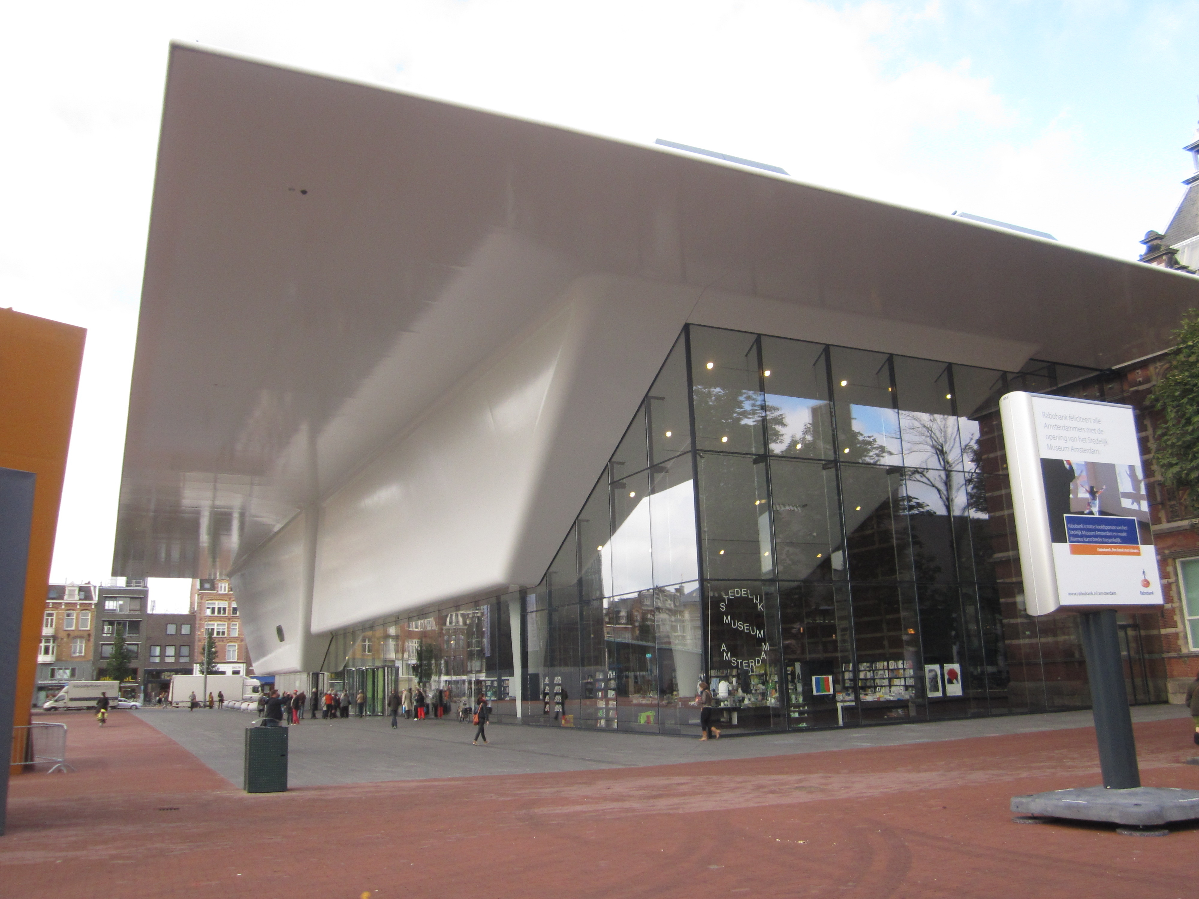 The new wing of the Stedelijk Museum Amsterdam, two days after the reopening in 2012.